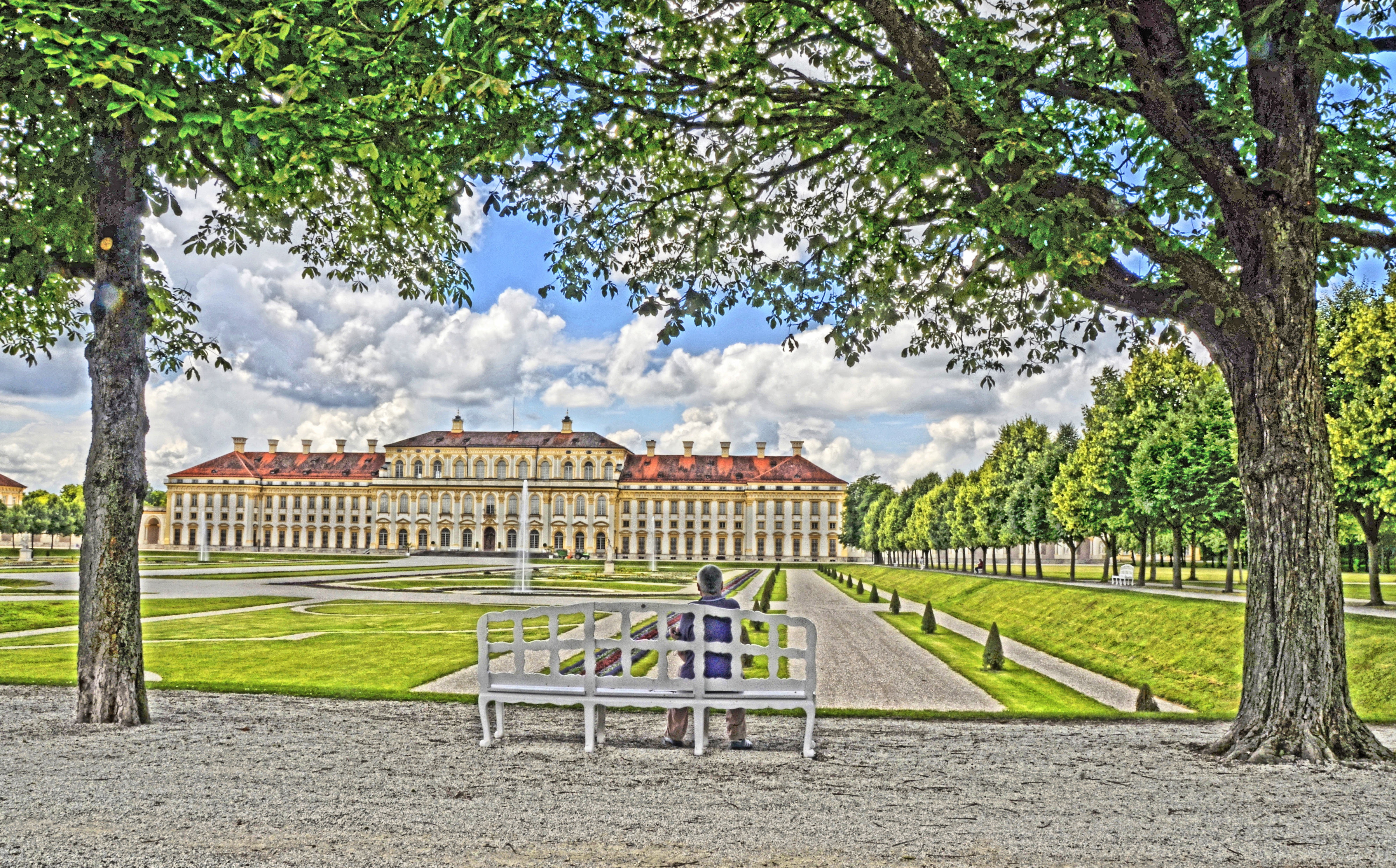 "Le Parc de Oberschleissheim" - The Parc of Oberschleissheim Castle in HDR - Hommage to David Hockney